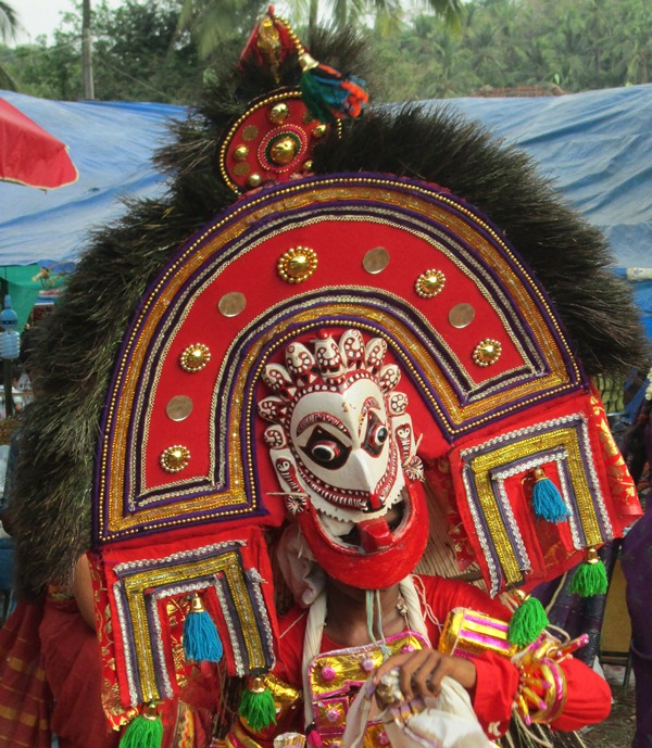 Pootham, a popular ritual form of worship.